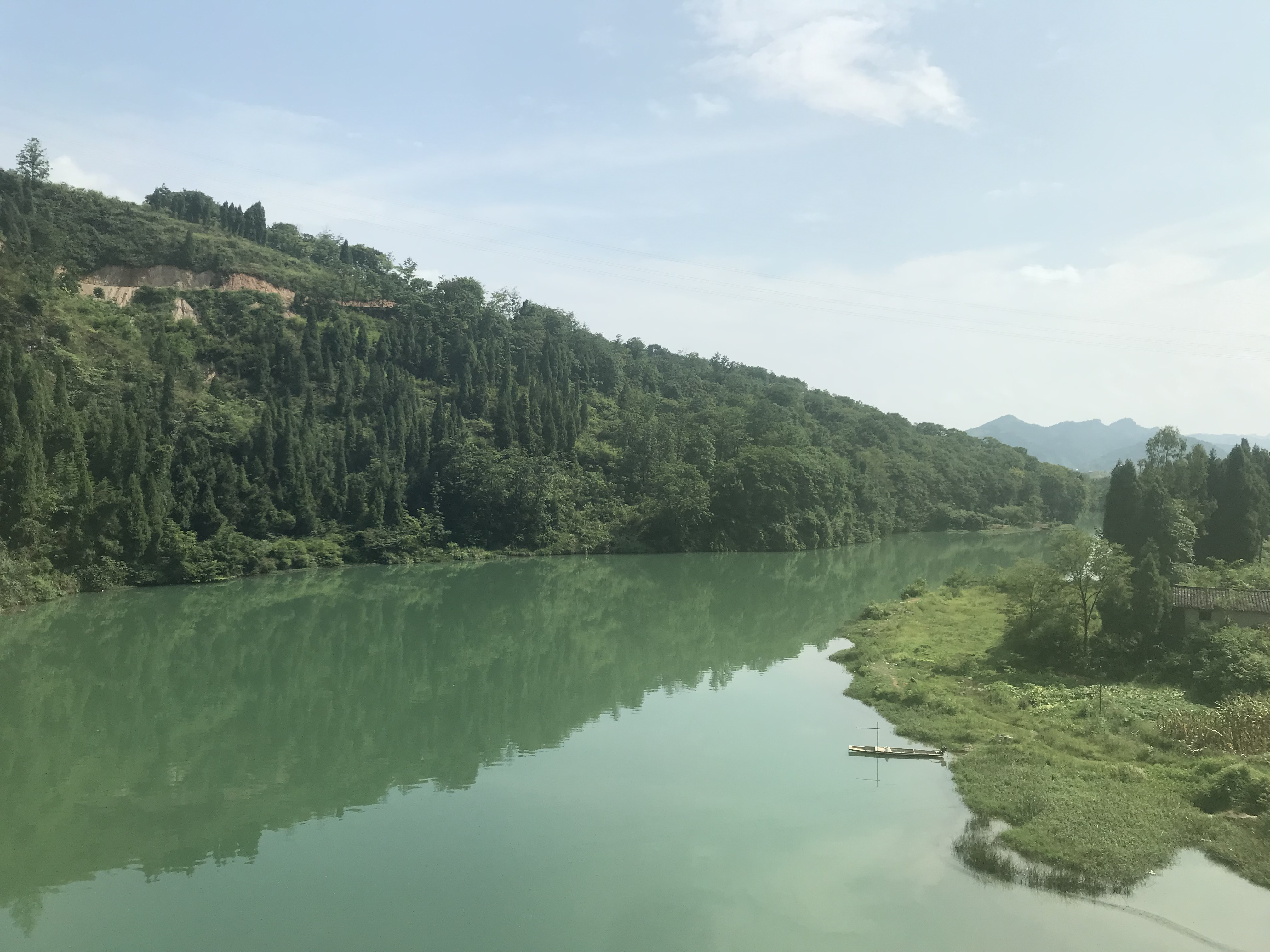 201908 Wu River in Qingxi